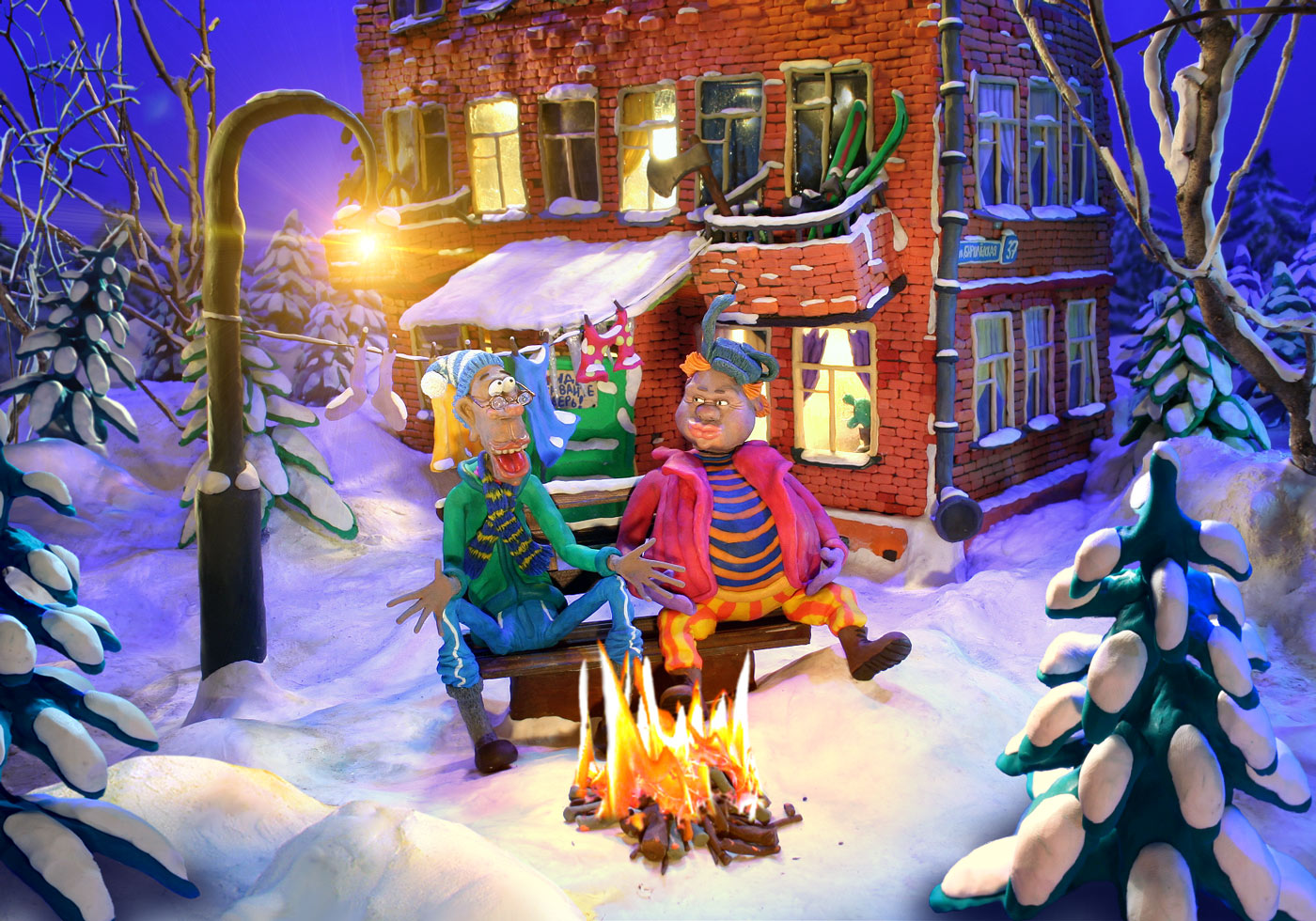 Clay animation by Max Sviridov Studios: Characters from the Kuzmich animation series